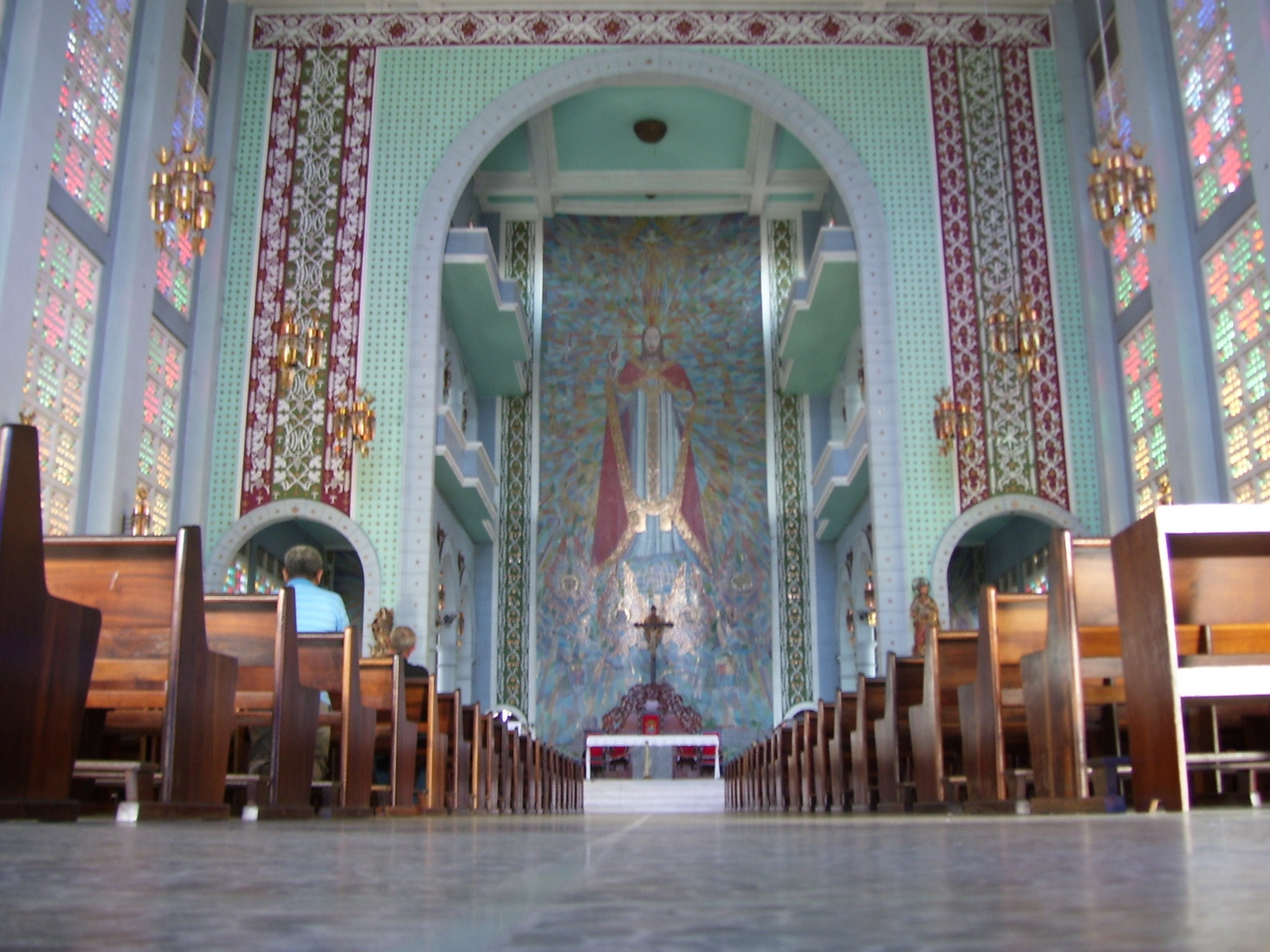 Altar of the Metropolitan Cathedral, in Cuiabá, Mato Grosso, Brazil